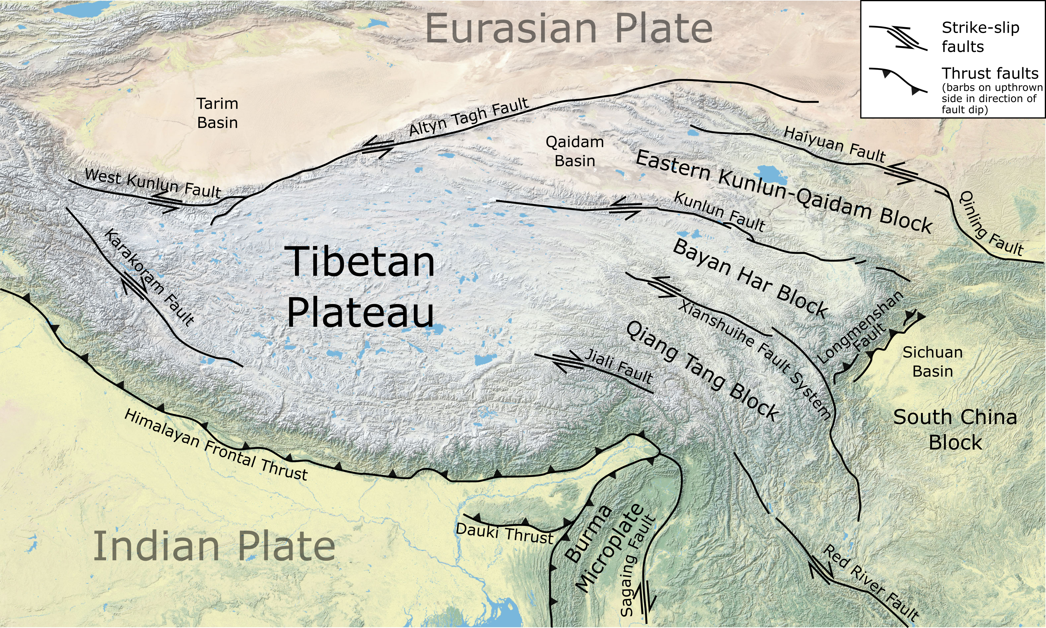 Screen capture from NASA WorldWind software of Tibetan Plateau and surrounding areas showing location of main fault zones derived from various published sources